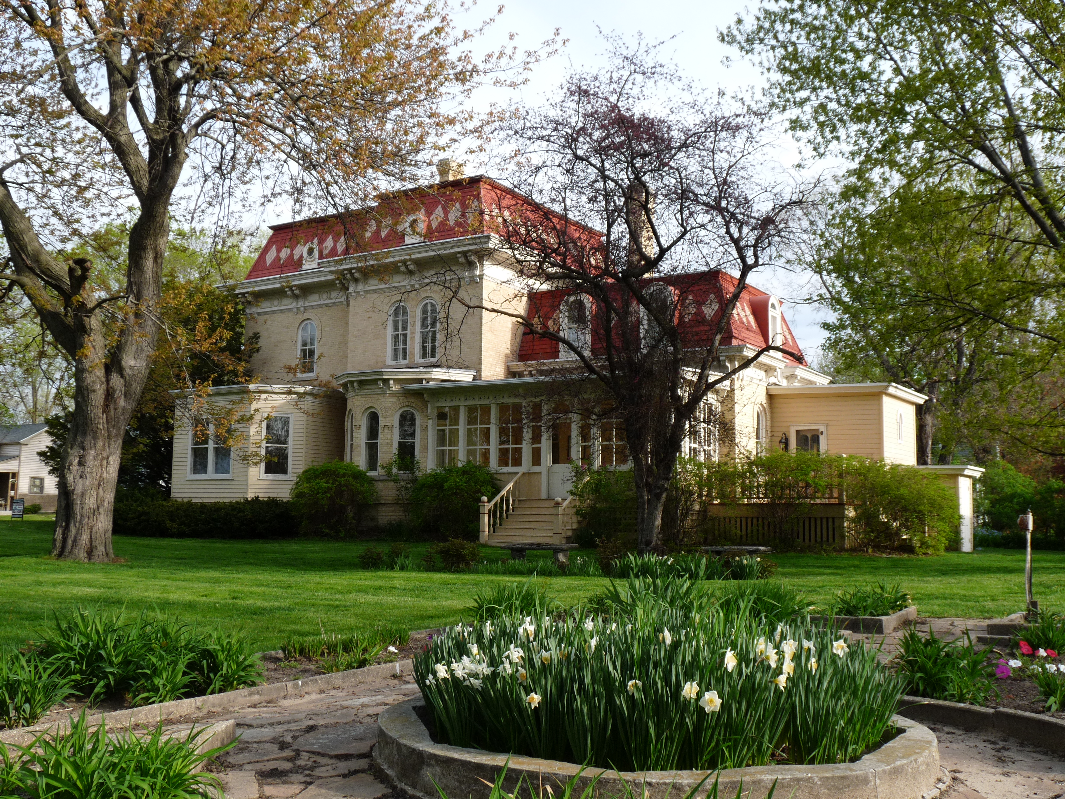 The Abner L. Harris house in Reedsburg, Wisconsin was built around 1873 in Second Empire style. In 1984 it was listed on the National Register of Historic Places.